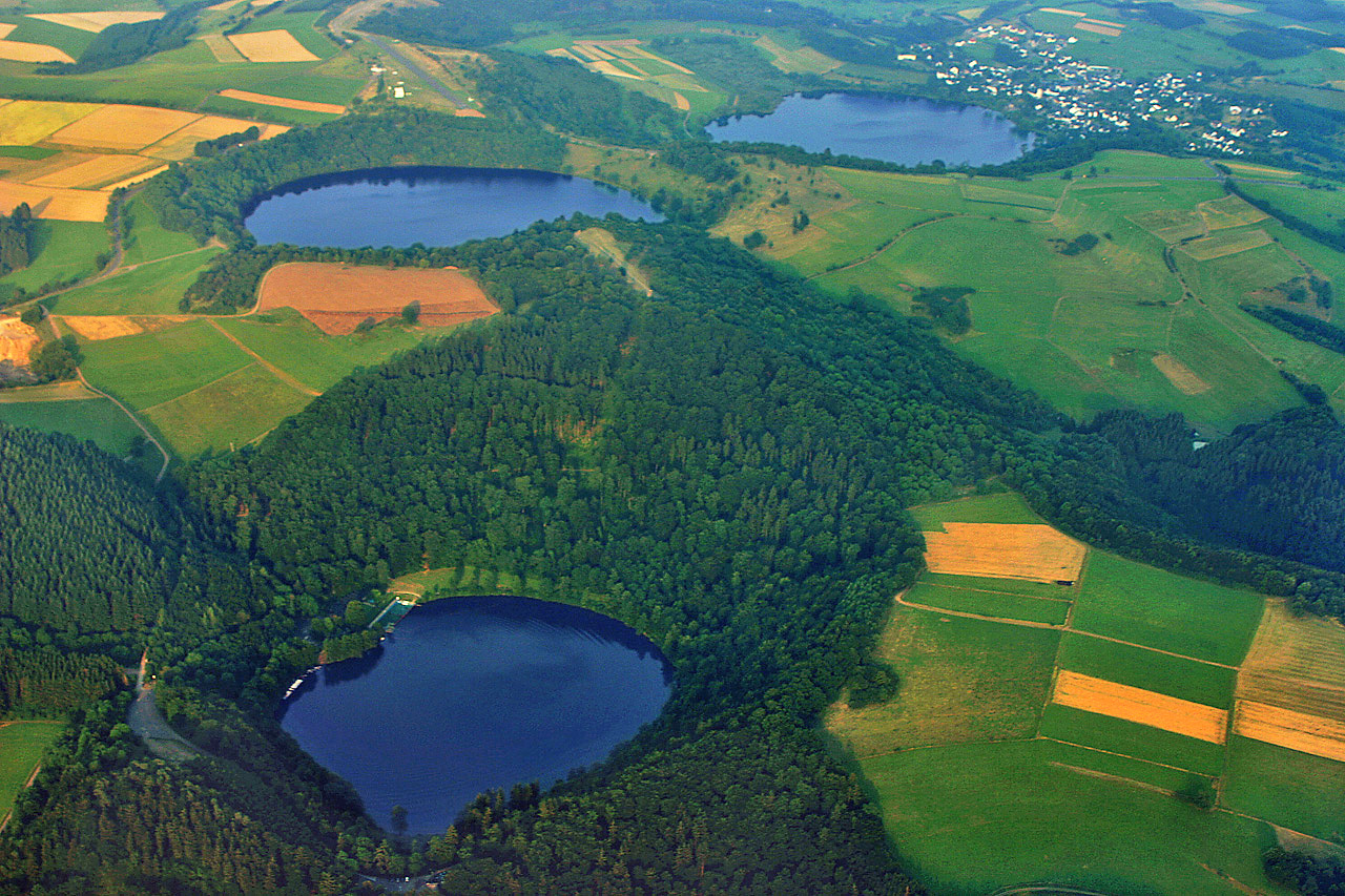 3 waterfilled maars in the Eifel, Germany. „Dauner Maare“ (Gemündener Maar, Weinfelder Maar, SchalkenmehrenerMaar). The Eifel has 75 maars, 9 thereof are waterfilled. Eifel-Maars are the classical example worldwide. Volcanos, generating maars (the phreatomagmatic eruption type) are also found in other parts of Europe and on other continents.